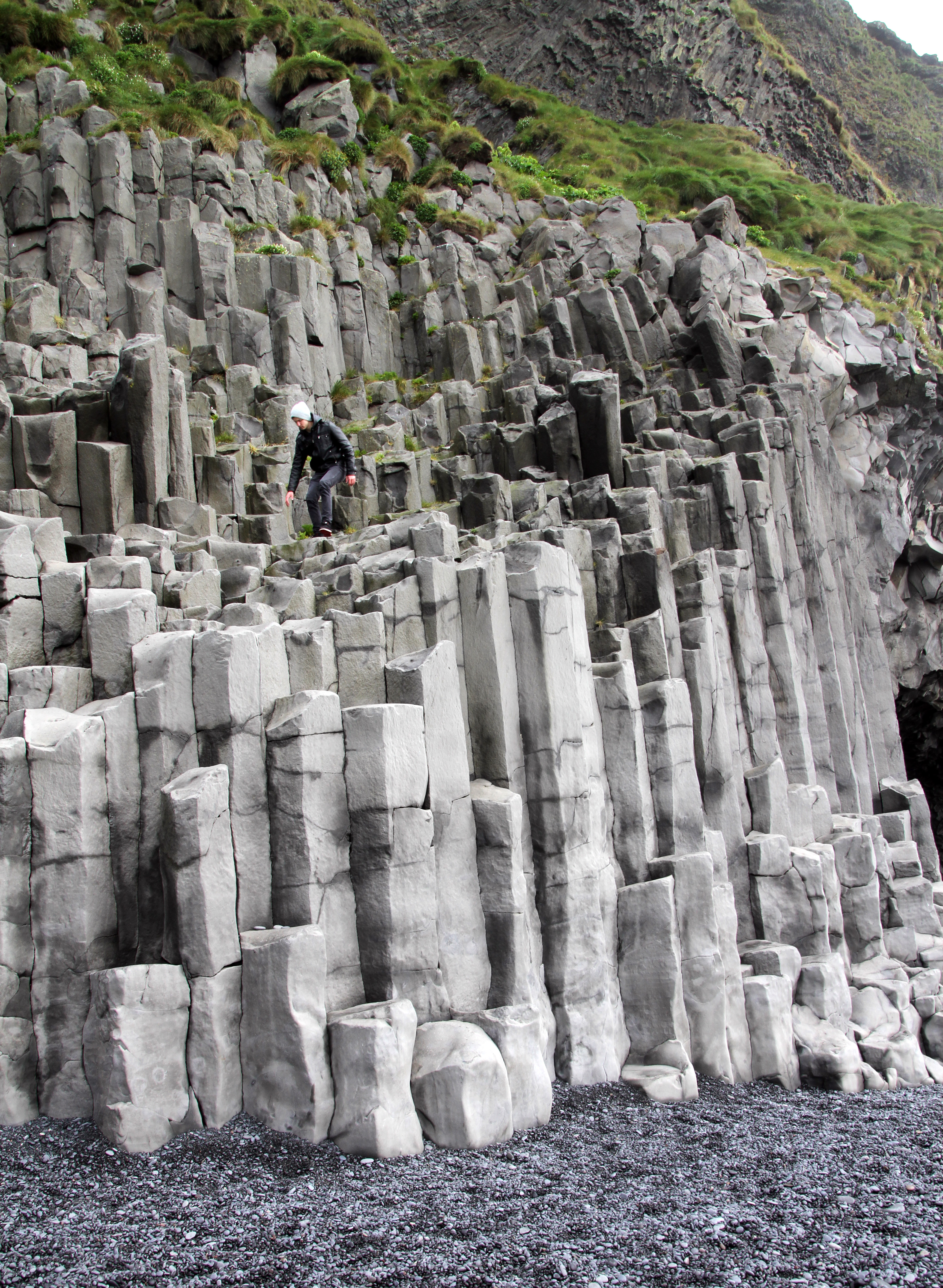 Columnar basalts at Reynisfjara